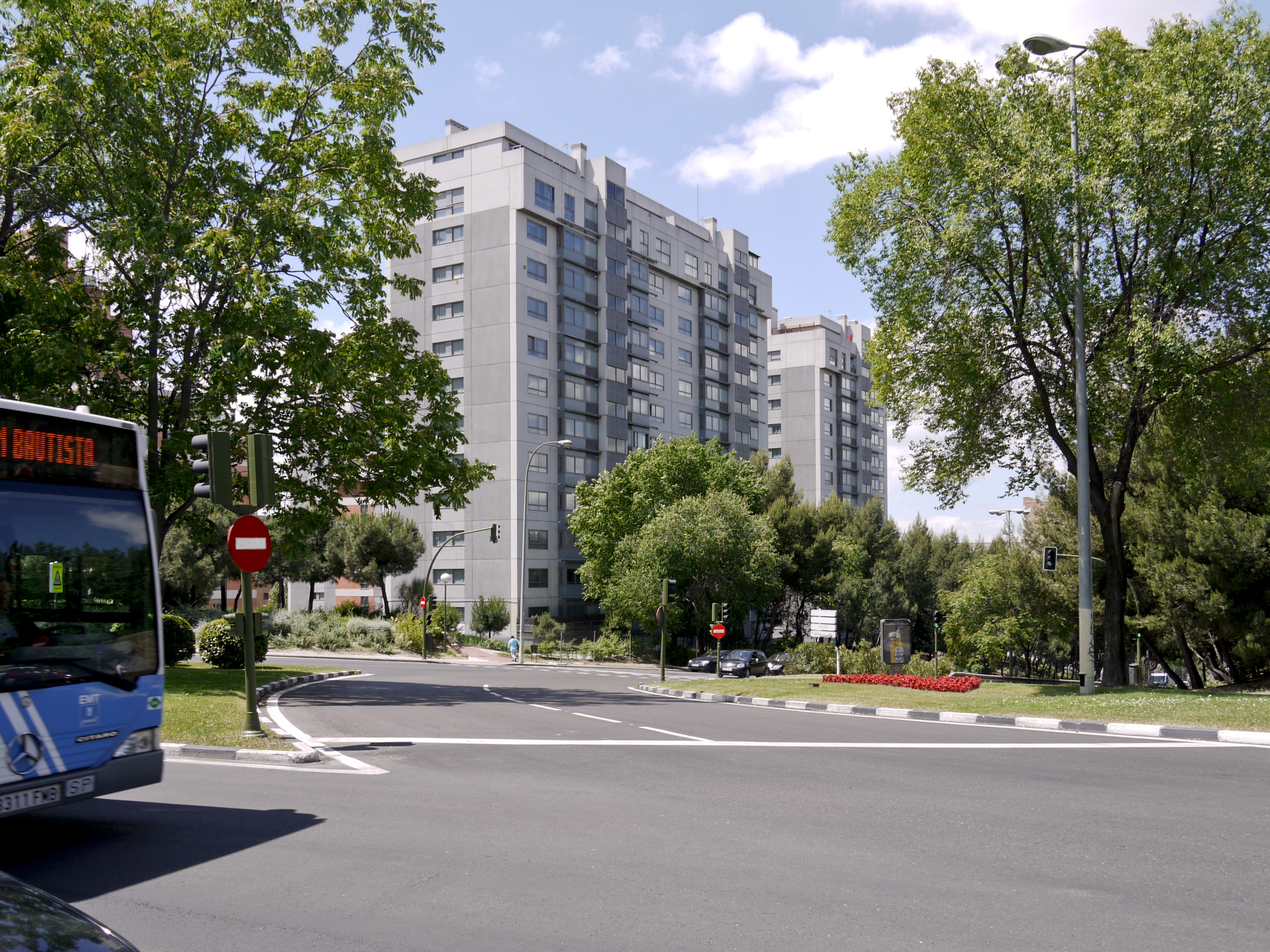 Calle Torrelaguna, roundabout, access to M-30. District Ciudad Lineal, barrio San Juan Bautista, Madrid, Spain.